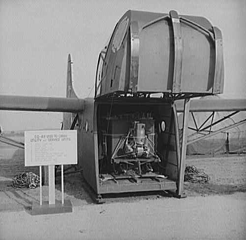 Glider used to carry utility and service units. Shown at demonstration of equiment held by United States Army Air Forces. Cargo space is large enough to hold a jeep and six men or a 75mm pack Howitzer, with crew.